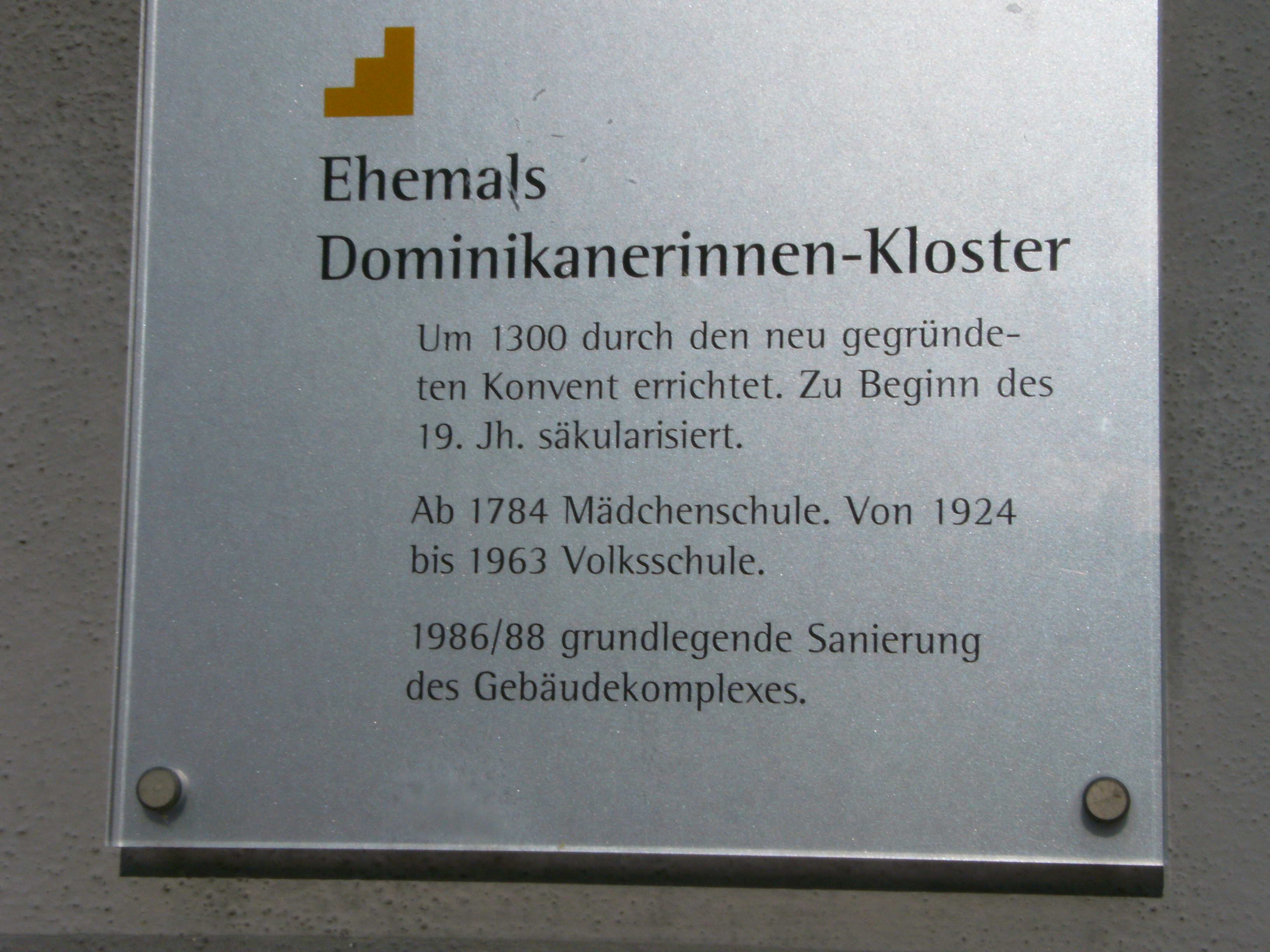 Meersburg, Germany, Oberstadt (upper town): Former Dominikanerinnen-Kloster (Dominican Monastery for nuns). Plaque.